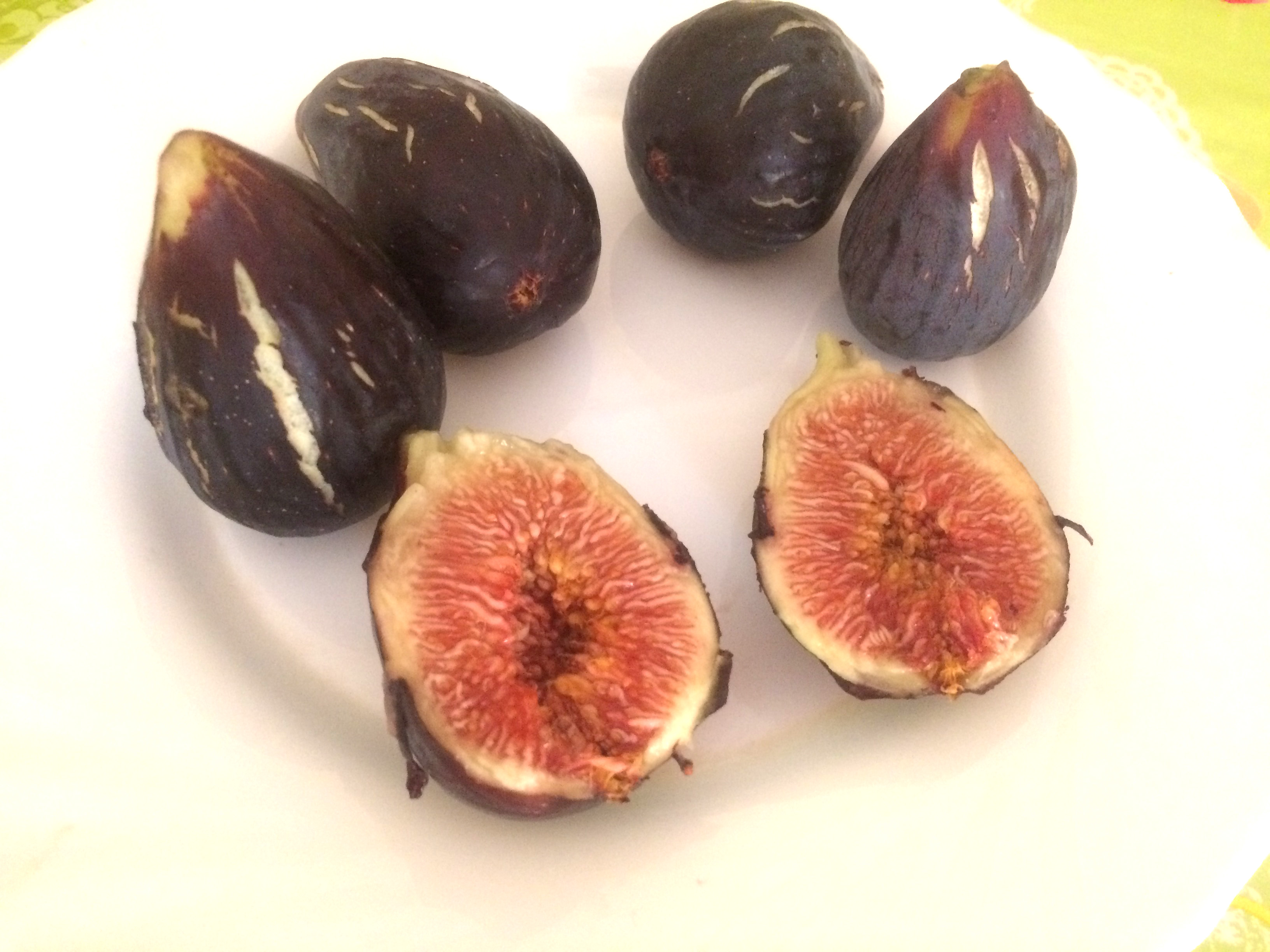 Figs Napolitana